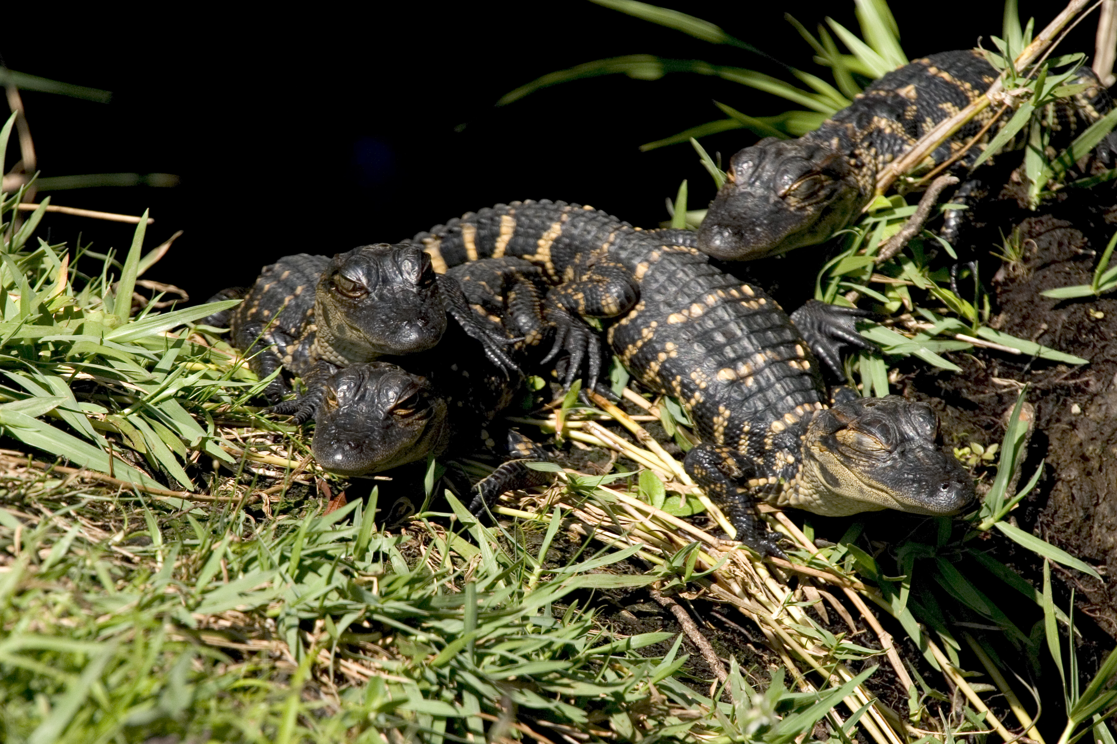 Alligator Hatchling, NPSPhoto, R. Cammauf